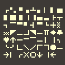 some font for the C64 WARNING! This is NOT the C64 default font. C64's default font consists of 8x8 pixel block characters (7x7 without space), while this image shows 6x6 pixel (5x5 pixel without space) blocks. --Afrank99 11:34, 25 April 2007 (UTC) agreed. maybe it was used in some graphical mode. you better dont use that image for stanrdard articles about that device. it might be okay for illustrations about fonts and similar techniques. --Alexander.stohr (talk) 18:36, 30 December 2009 (UTC)